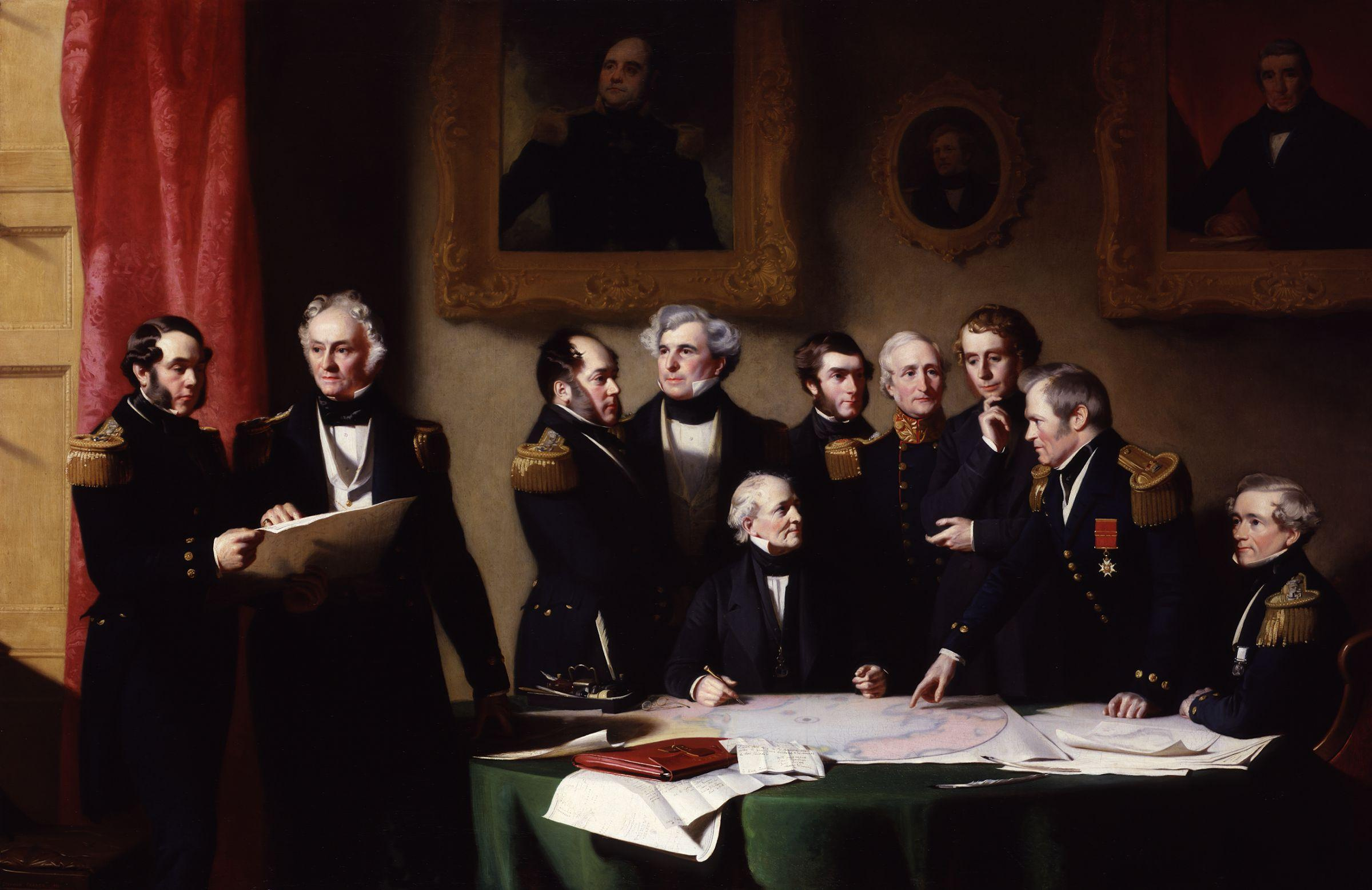 The Arctic Council planning a search for Sir John Franklin, by Stephen Pearce (died 1904). Depicted, from left to right, are: George Back (1796–1878) (en) William Edward Parry (1790–1855) (en) Edward Joseph Bird (1799–1881) James Clark Ross (1800–1862) (en) Francis Beaufort (1774–1857), seated (en) John Barrow Jr (1808–1881) Edward Sabine (1788–1883) (en) William Alexander Baillie Hamilton (1803–1881) (en) John Richardson (1787–1865) (en) Frederick William Beechey (1796–1856) (en) All images in this batch have been confirmed as author died before 1939 according to the official death date listed by the NPG.